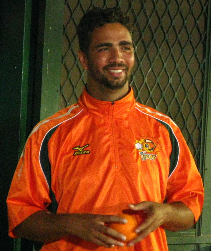 Nelson Figueroa in the dugout with the Lions during a July 2014 game in Taiwan.